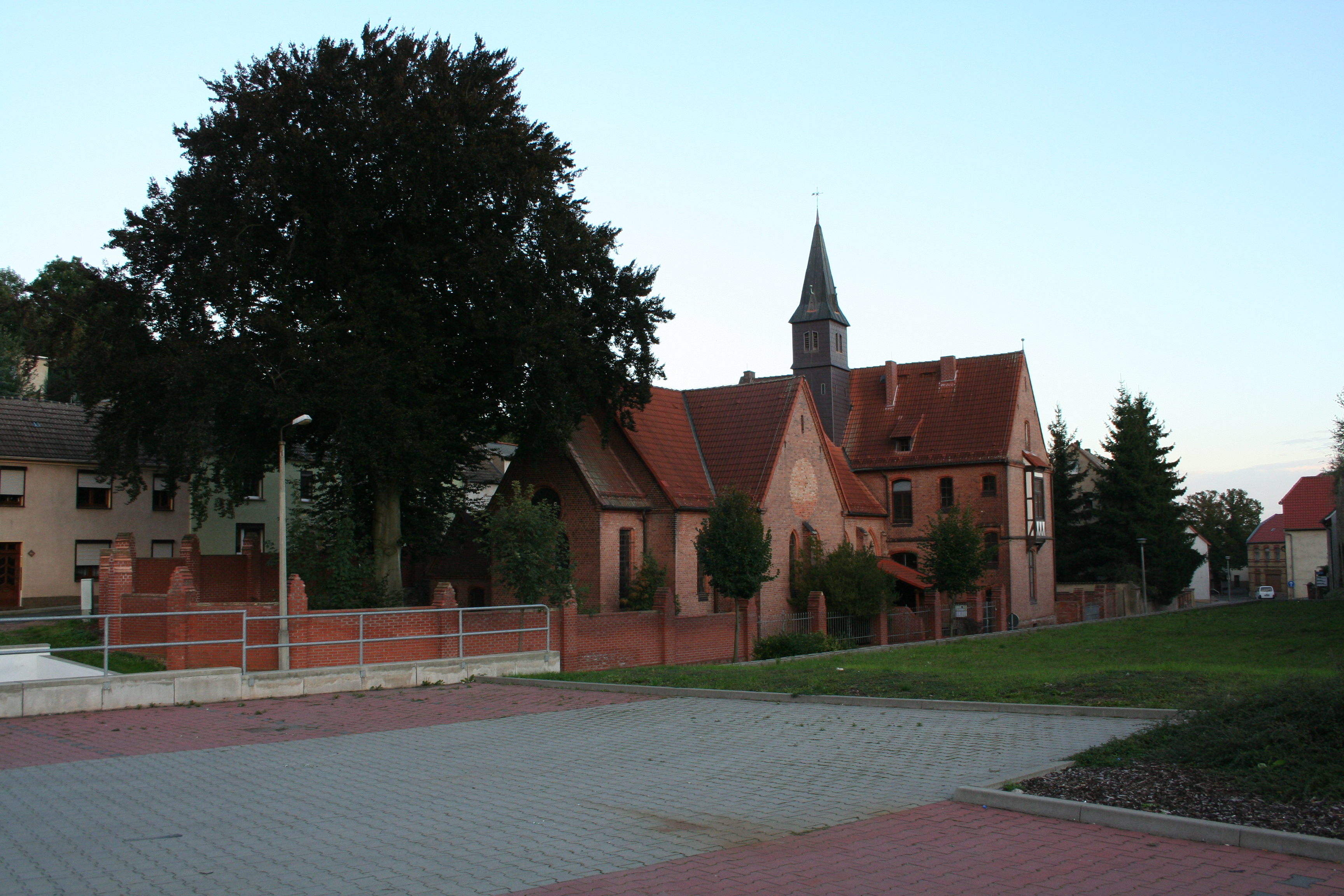 Gerbstedt